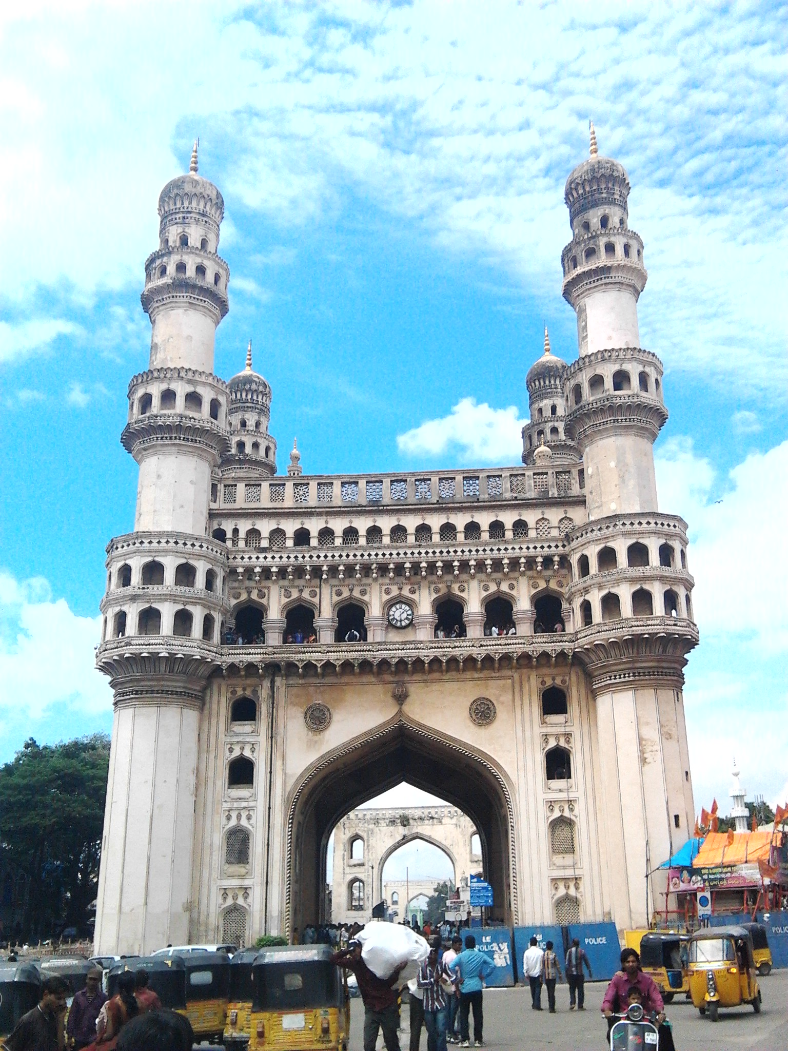 Charminar, built in 1591 AD, is a landmark monument located in Hyderabad, Andhra Pradesh, India.The English name is a transliteration and combination of the Urdu words Chār and Minar, translating to "Four Towers"; the eponymous towers are ornate minarets attached and supported by four grand arches The landmark has become a global icon of Hyderabad, listed among the most recognized structures of India.